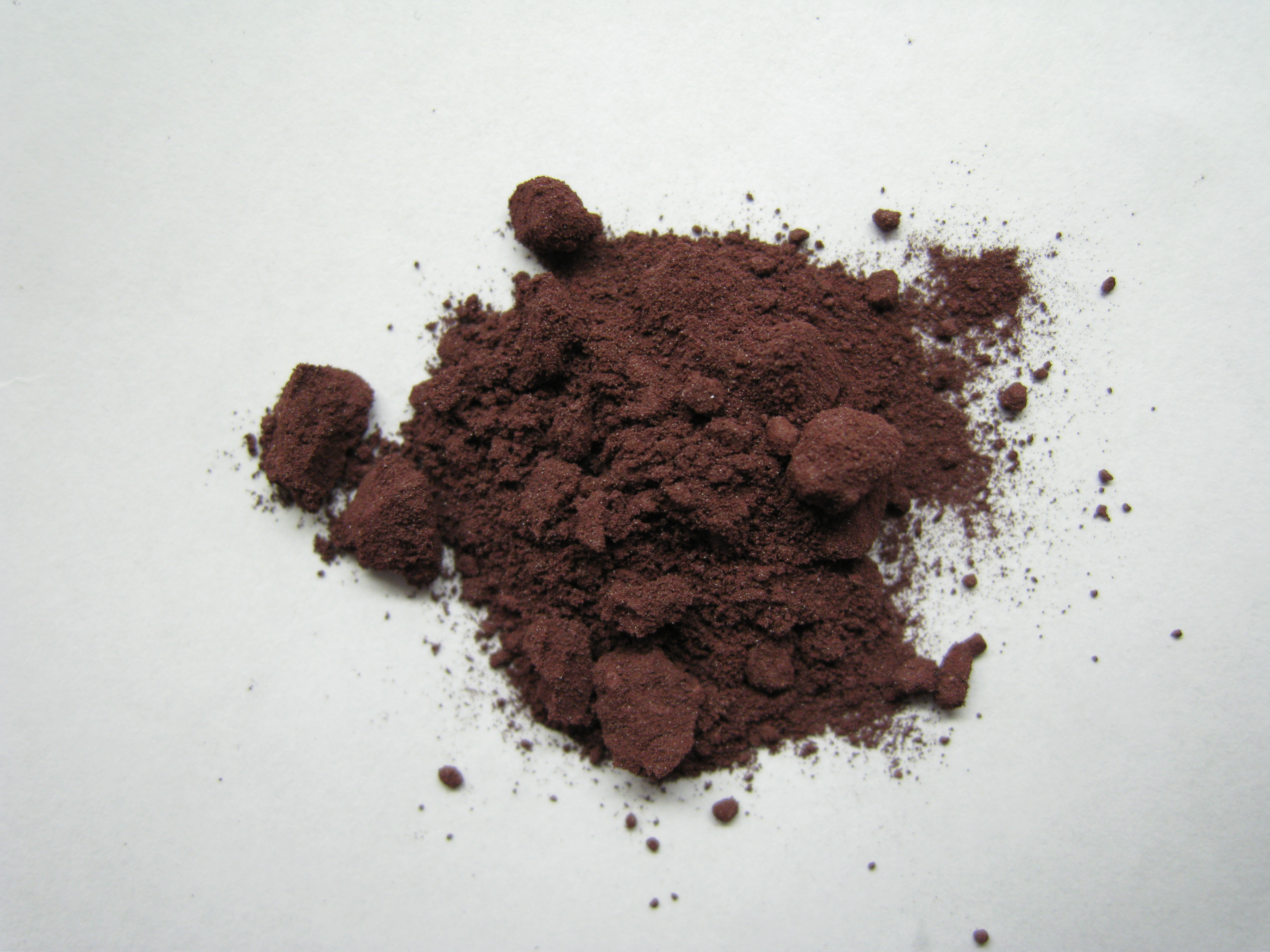 Red Phosphorus from the Dennis s.k collection